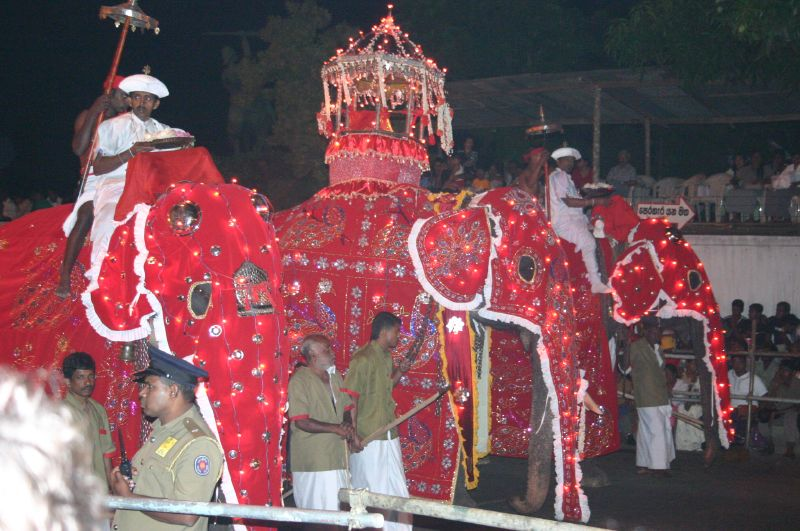 A buddhist festival held over ten days each July/August which celebrates a remnant of Buddha's tooth that is kept in a temple in the town. The parade has different parts including whip crackers, over 40 elephants, dancers, jugglers and plate spinners and goes over about 3 hours. Really entertaining